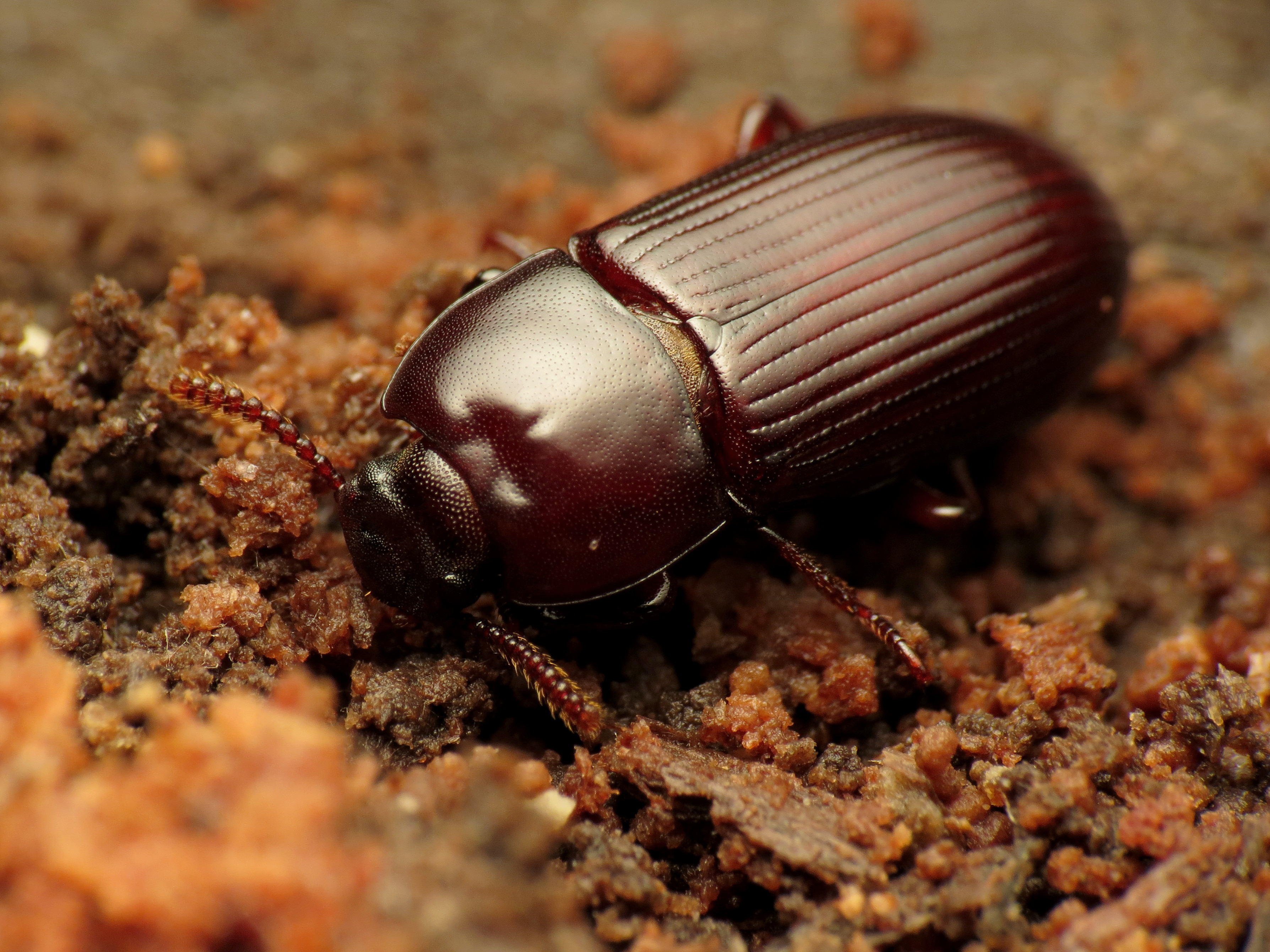 Uloma impressa. Rock Creek Park, Washington, DC, USA. The depression on the pronotum makes this a male. I think this must by U. impressa, because the last joint of the antenna is rounded. Compare to U. imberbis. Horn 1970 (Key to US & Canada species)